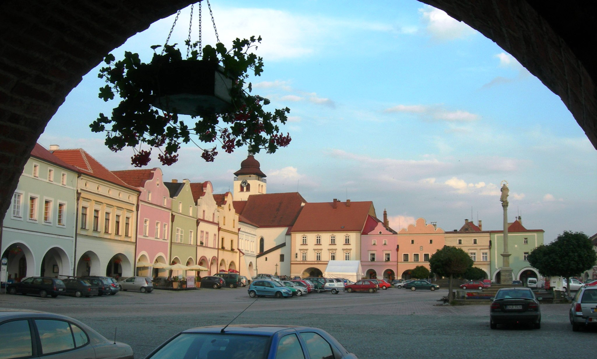 Nové Město nad Metují, market, northern arcades